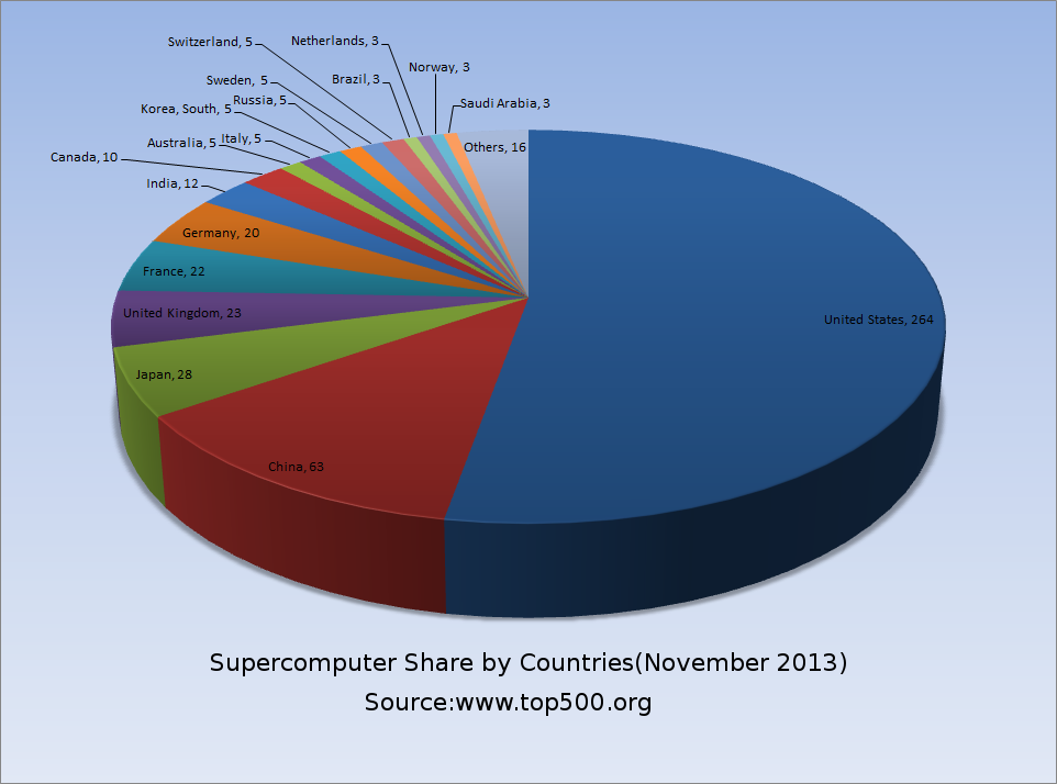 Pie chart showing share of supercomputers by countries from top 500 supercomputers as of November 2013